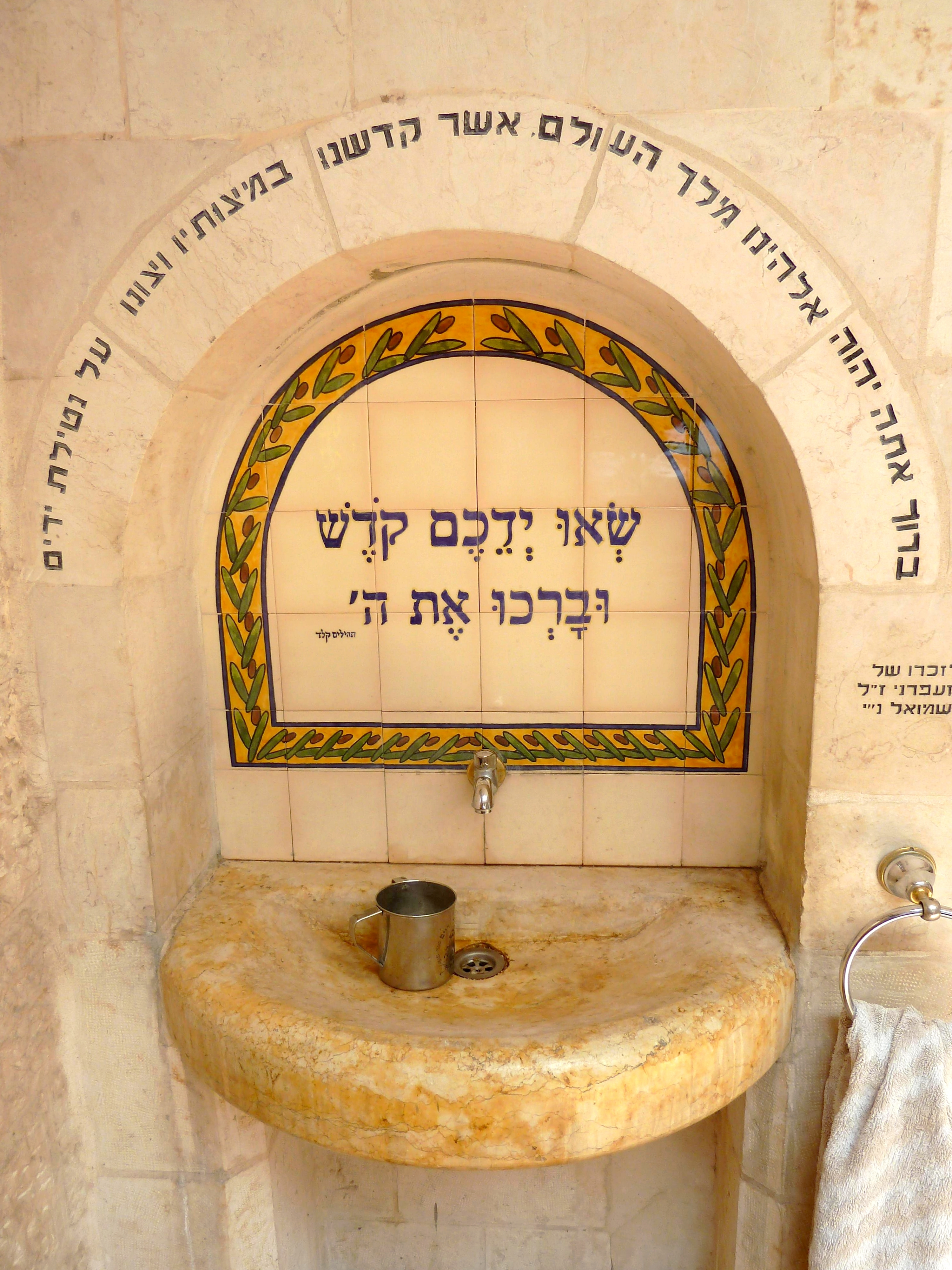 Old Jerusalem, Beit El Yeshiva, Netilat yadayim. biblical verse psalm 134:2 : "Lift up your hands in the sanctuary, and bless the LORD."